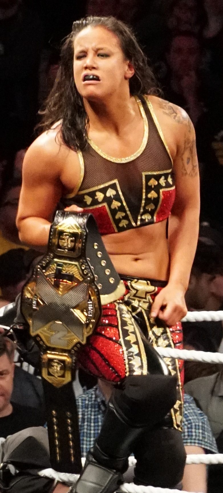 NOLA 2018 - WWE NXT Takeover - New Orleans - Shayna Baszler Vs Ember Moon Shayna Baszler def. (KO) Ember Moon (c) (in 12:55) For : NXT Women's Title (title change) Rating : ***1/4 ( Deux semaines a Nola pour la ville et pour WWE Wrestlemania XXXIV Two weeks Nola for the city and for WWE Wrestlemania XXXIV )